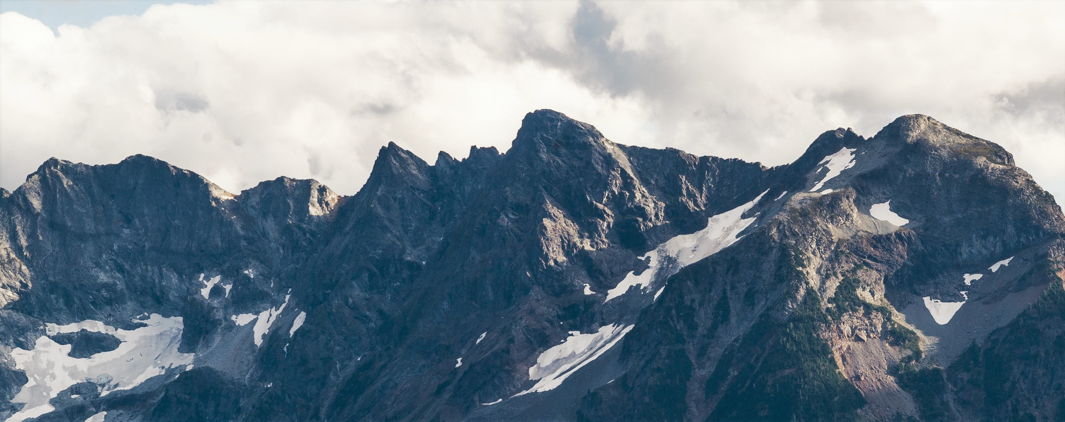 Elija Ridge from Little Jack Mountain Trail